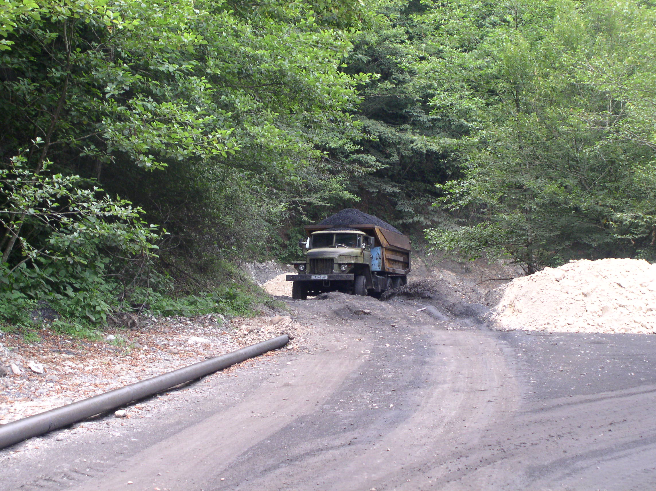 Coal is transported from the mine in the Tquarchal district of Abkhazia